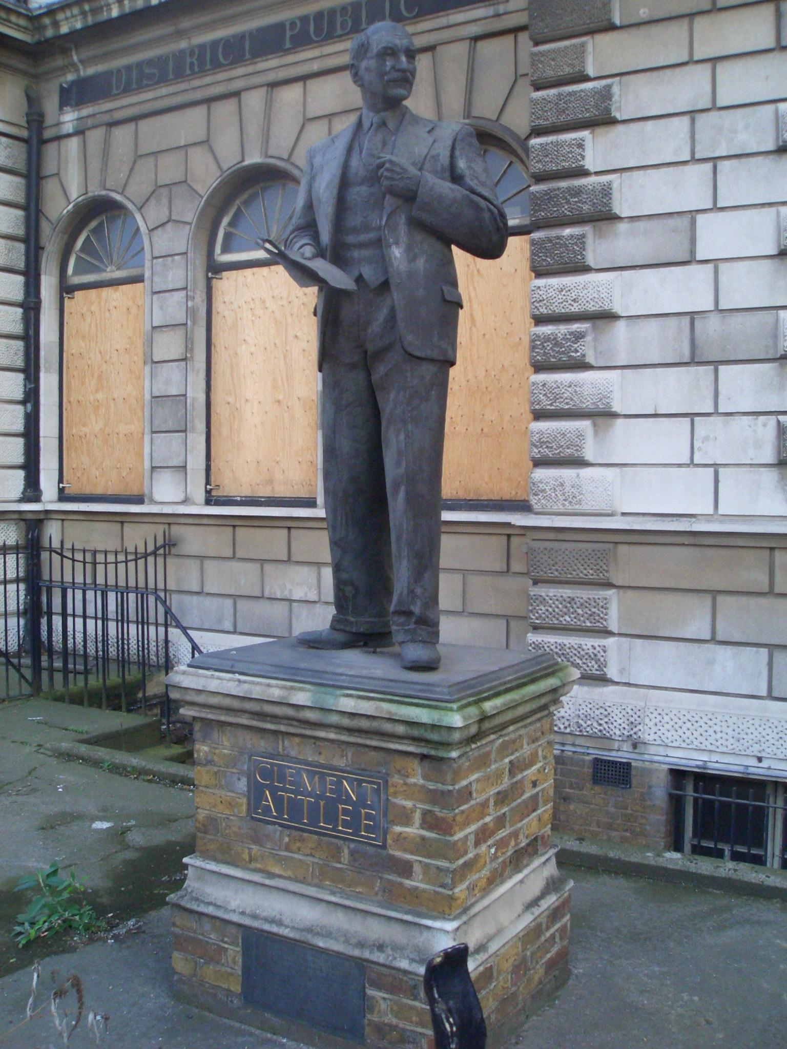 A statue of Clement Attlee outside Limehouse Library, which is boarded up. In April 2011 the statute was unveiled in its new permanent location outside the main library at Queen Mary, University of London. Photo taken 2 October 2005 by User:Edward.